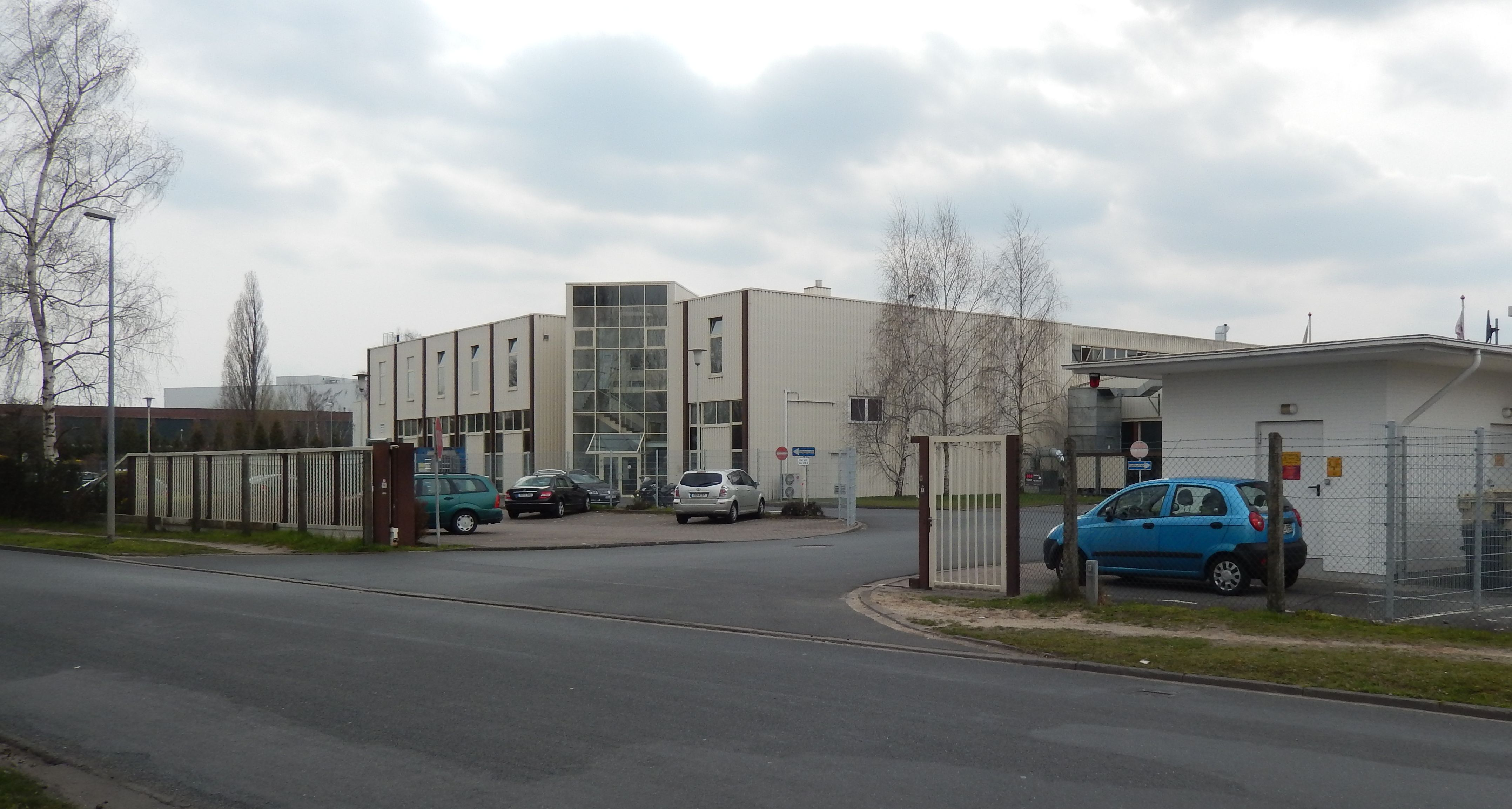 Delkeskamp Verpackungswerke in Hannover, Germany.